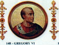 Pope Gregory VI in the Basilica of St.Paul Outside the Walls